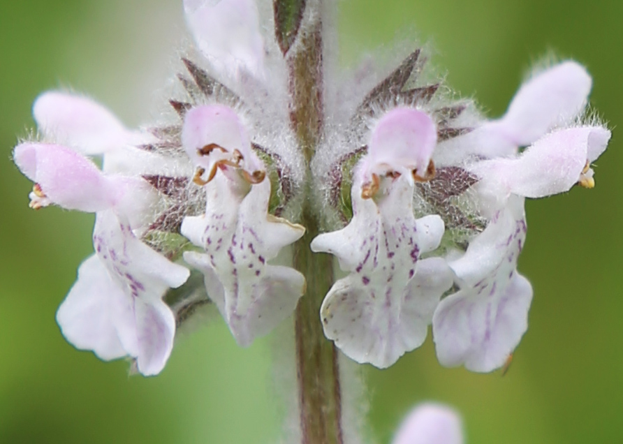 Closeup of white hedge nettle (Stachys albens) flowers. At 7000 ft on eastern slope of the Sierra Nevada, in Mono County, California.